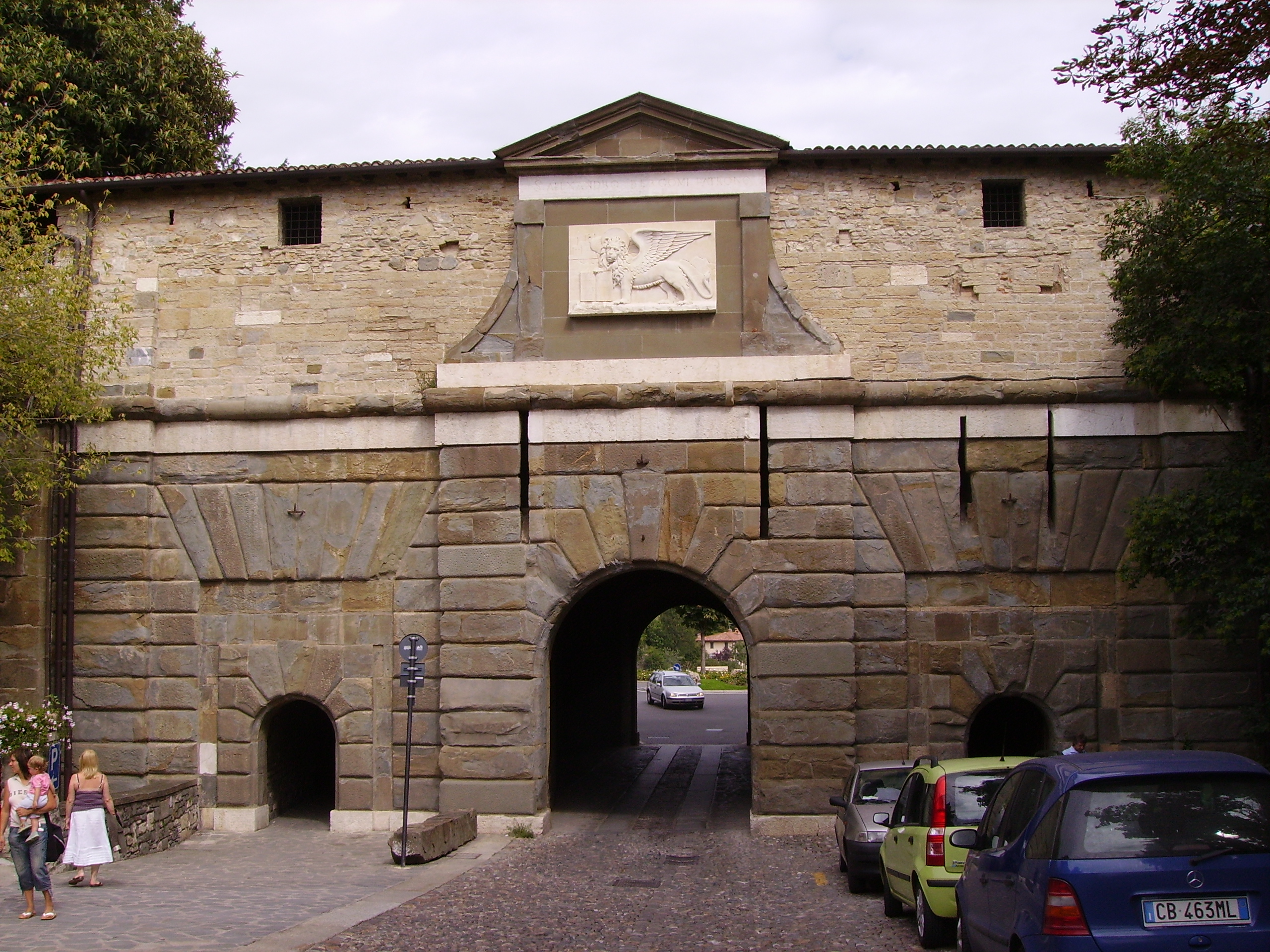 Bergamo, Lombardy, Italy - St Alexander Gate